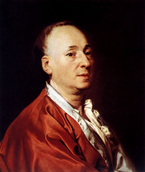 Портрет Дені Дідро